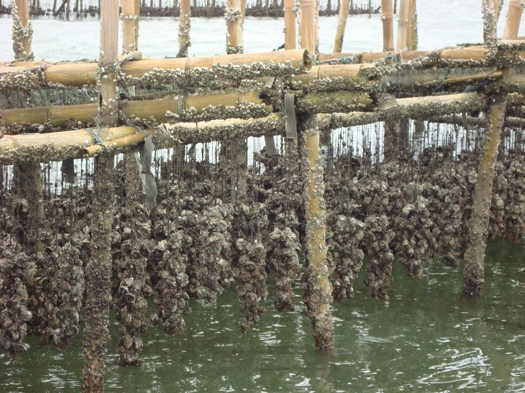 แหล่งเพาะเลี้ยงหอยนางรมในทะเล